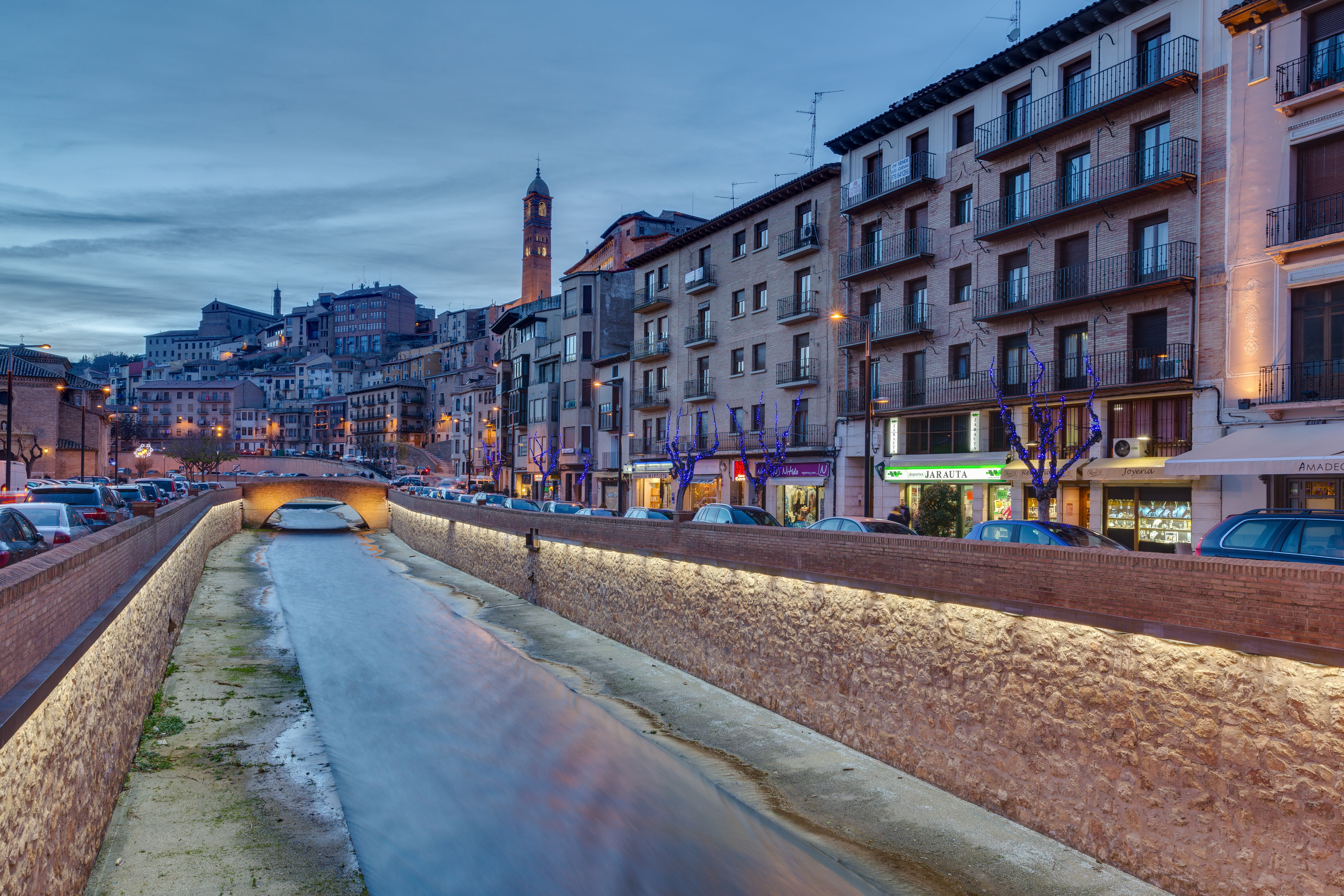 View of Tarazona, Spain